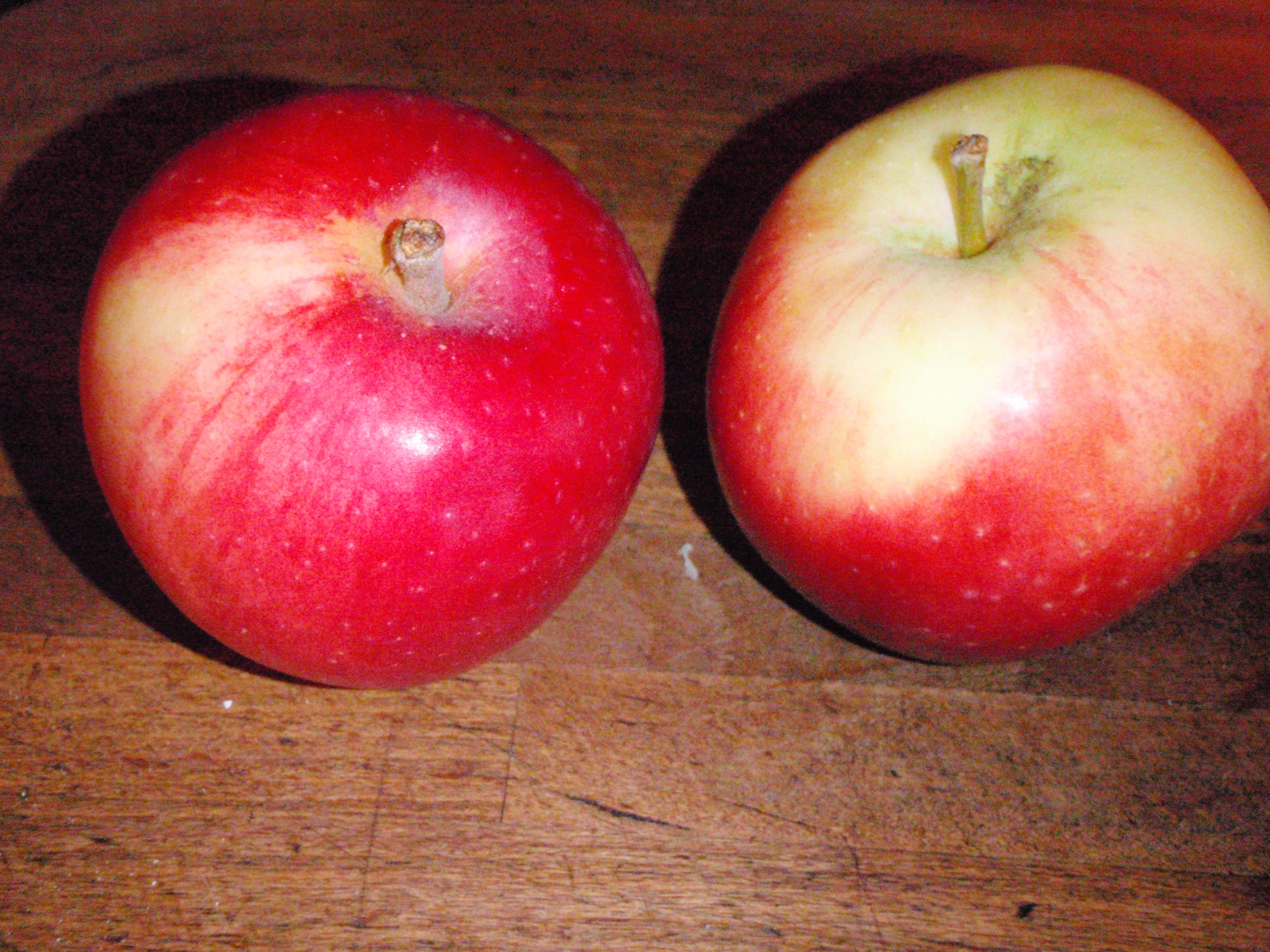 Two Alice apples